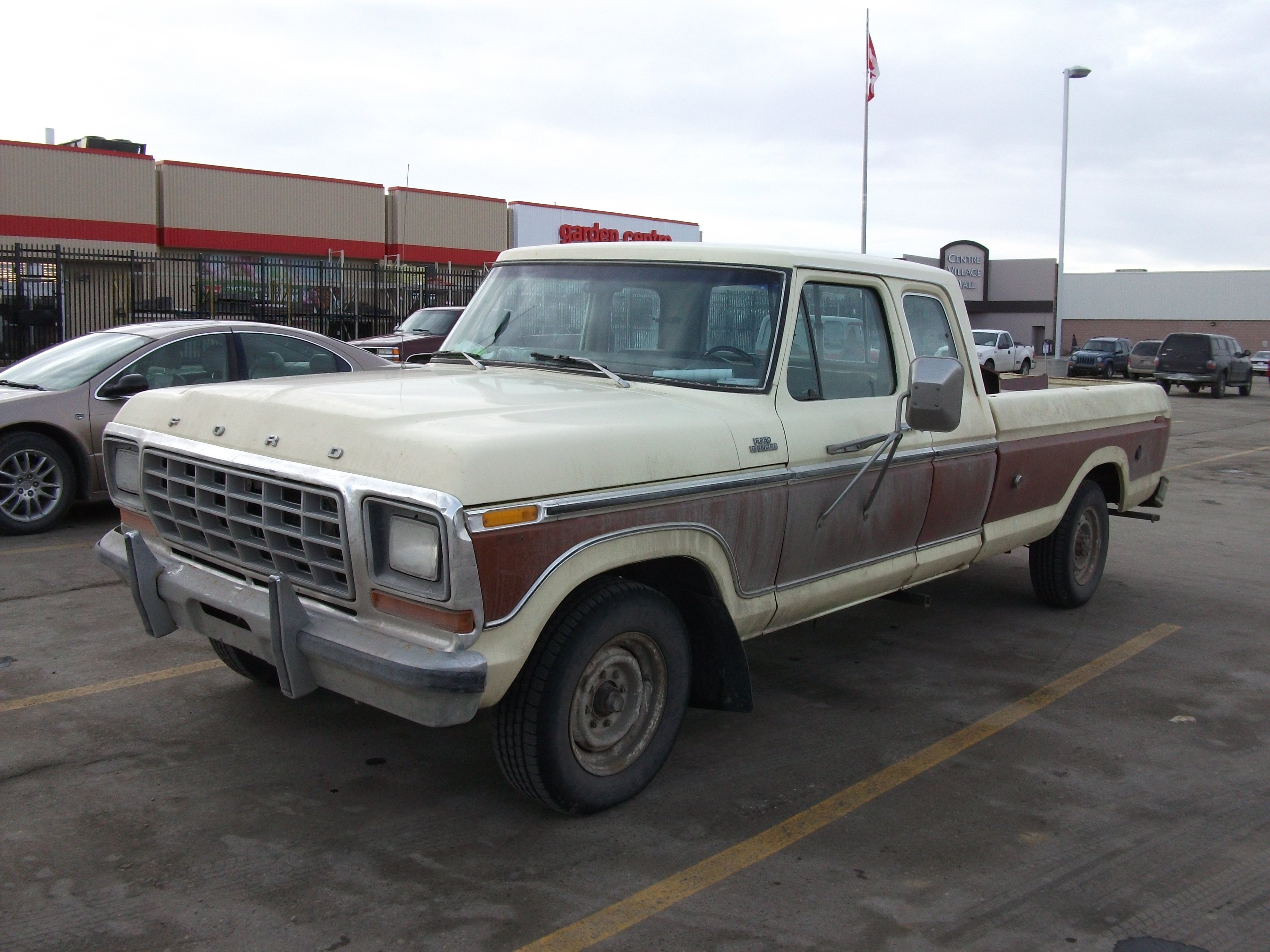 1978 Ford F-250 with a 460cid V8 engine and two tone paint.